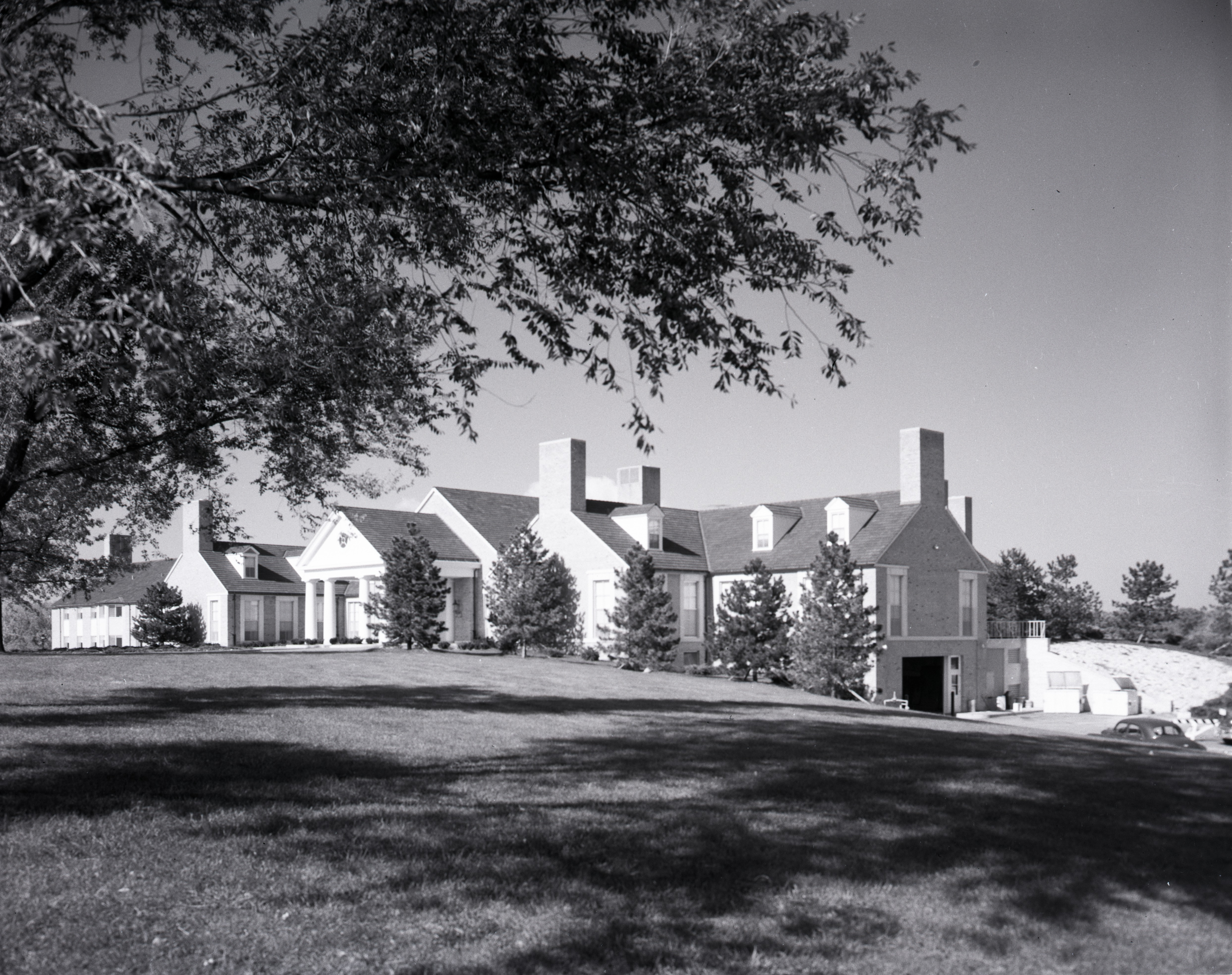 Exterior view of Bellerive Country Club, 12925 Ladue Road. Negative by Mizuki, Henry T., 10/28/1960. Missouri History Museum Photograph and Prints collection. Mac Mizuki Photography Studio Collection. Image number: P0374-02133-03-4a